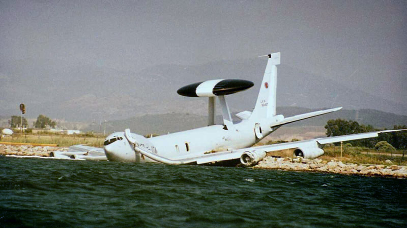 A Boeing E-3 Sentry, registration LX-N90457, after a post-V1 takeoff abort at Prevesa AB in Greece. The airframe split into two after dropping down to the shore. No casualties were reported, although the airframe was a total loss.